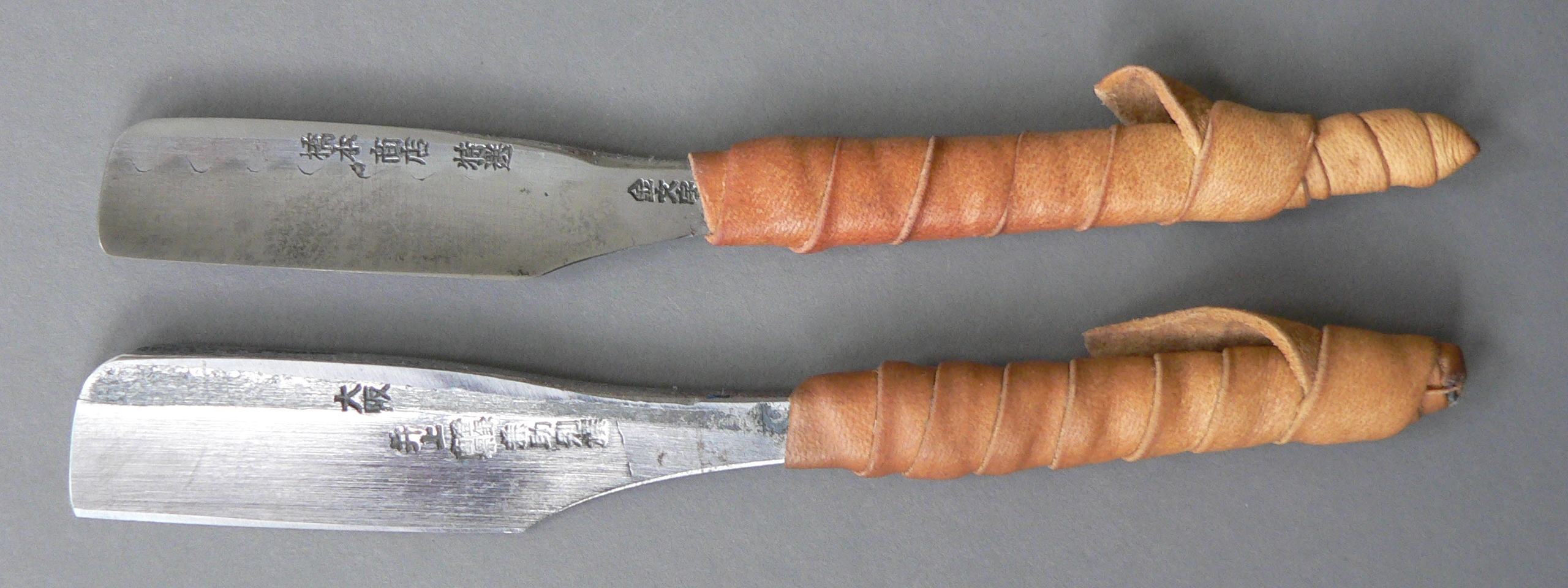 Two used old kamisori knives. View upon the backside (Ura). The waved line (upper kamisori) is not a hamon line but a waved line between the tamahagane layer and the jigane layer.